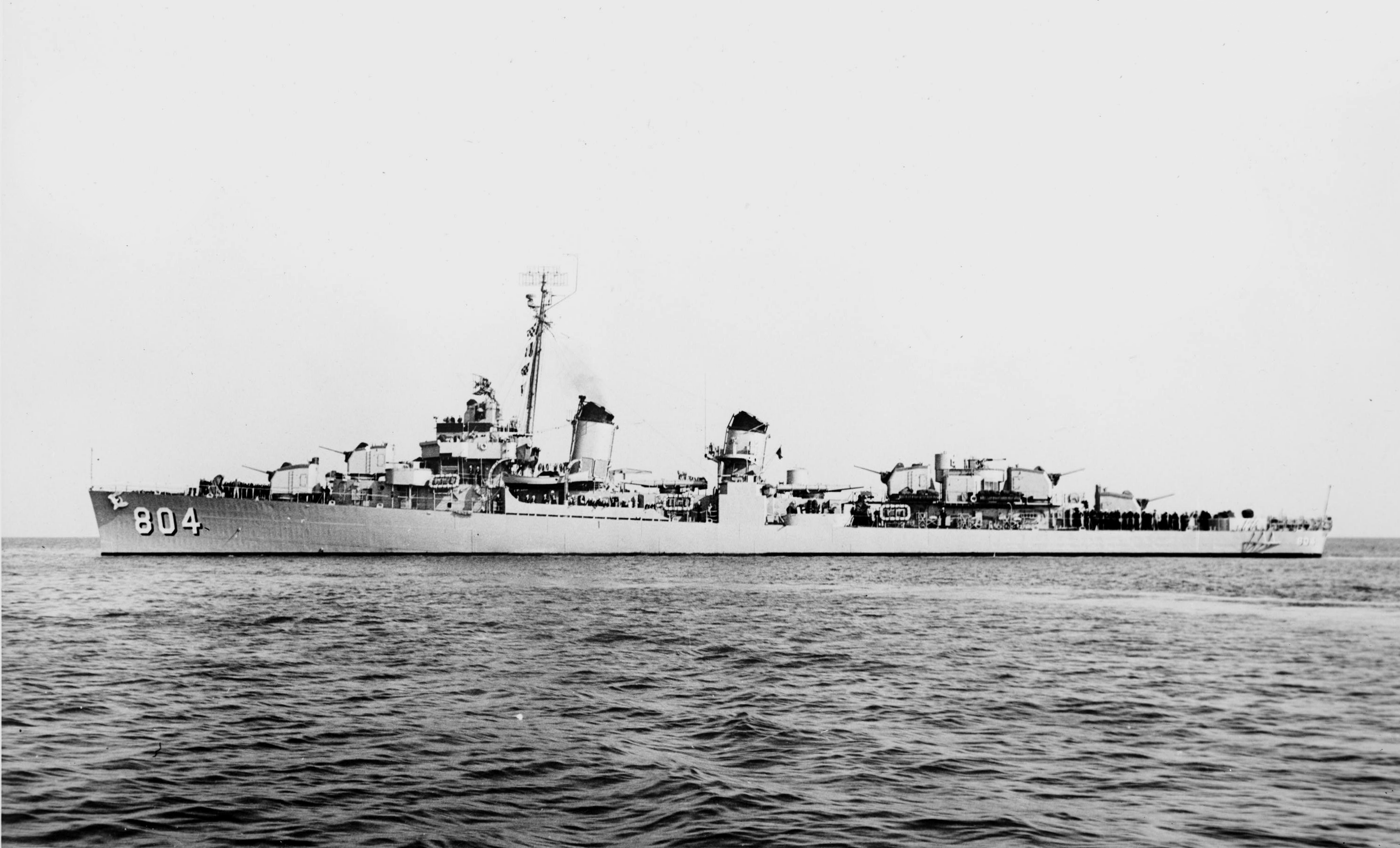 The U.S. Navy destroyer USS Rooks (DD-804) off the San Francisco Naval Shipyard, California (USA), on 23 September 1951, following a regular overhaul.